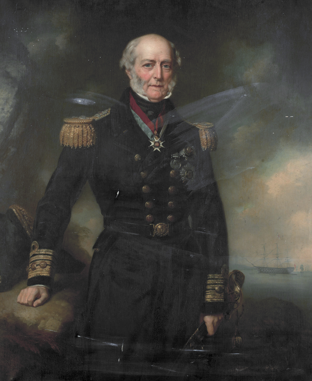 Admiral Sir George Seymour oil on canvas 142.8 x 111.8 cm signed verso: no 2 admiral/ Sir G.F.Seymour *.*.*./ John Lucas.